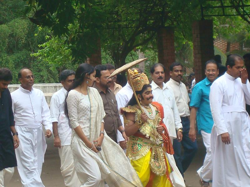 Samvritha Sunil at the onam celebration of Silver Hills HSS calicut